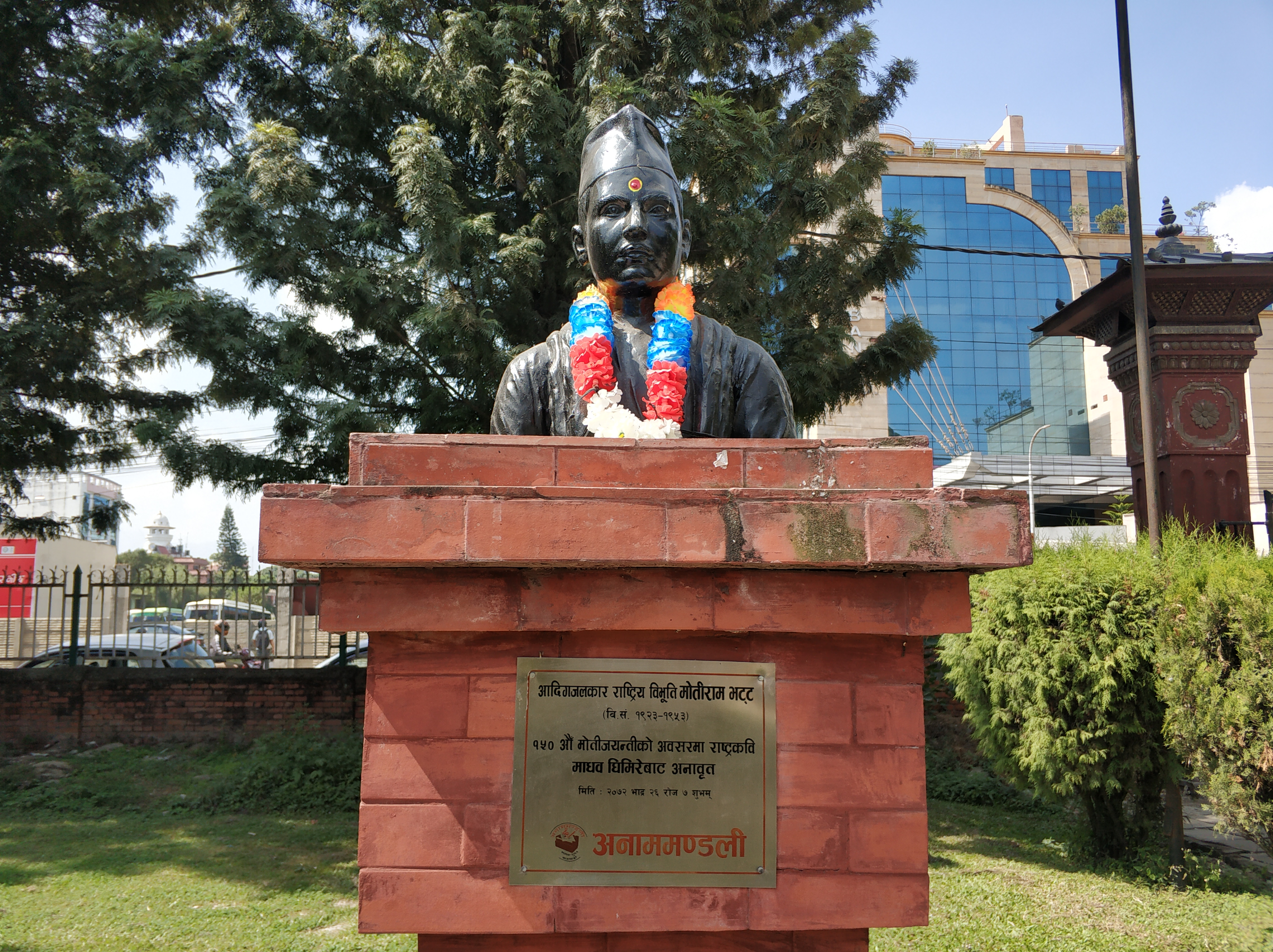 Motiram Bhatta was a Nepalese poet, born in Kathmandu, Nepal. His statue at Nepal Academy Kamaladi, Kathmandu.